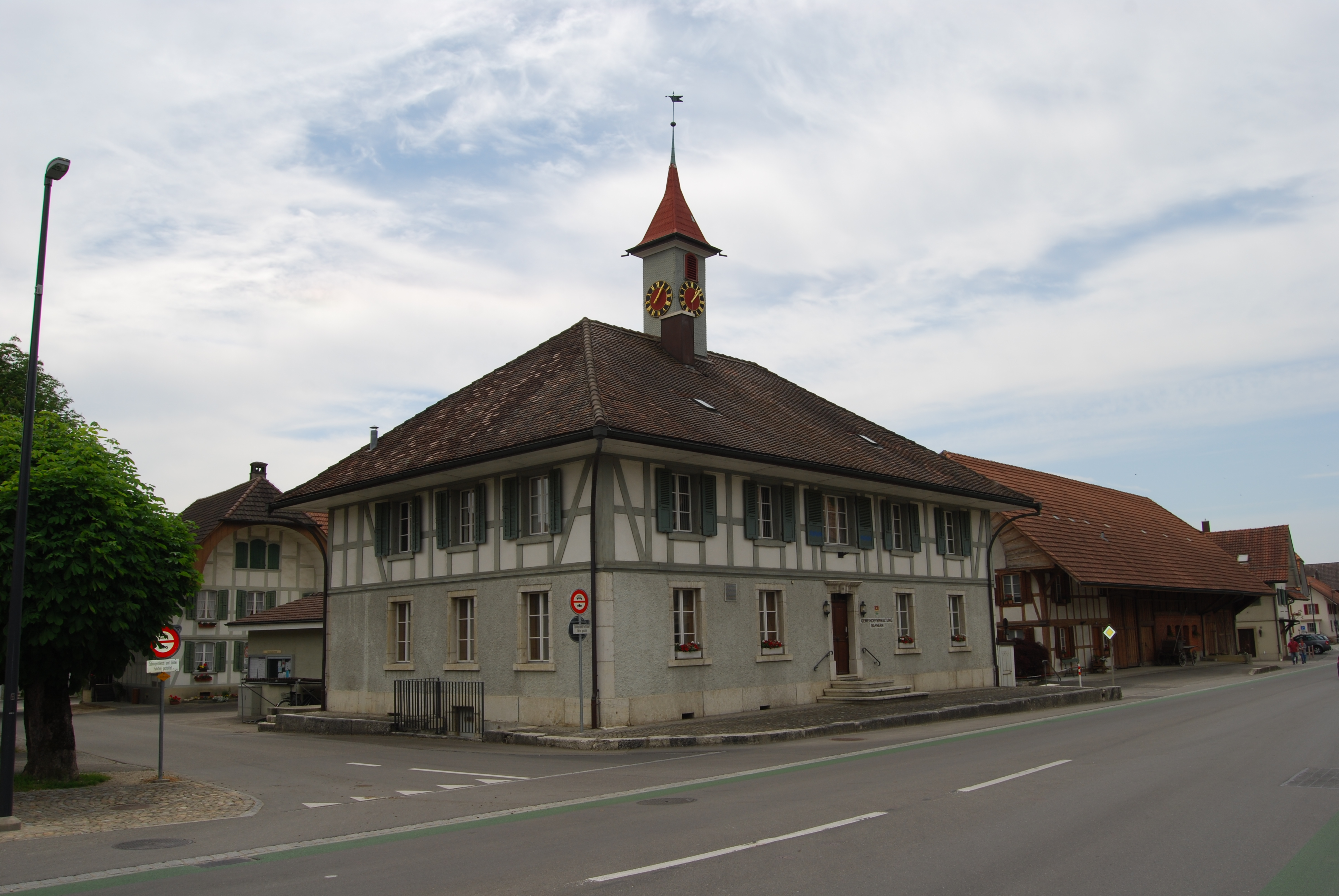 Municipal administration of Safnern, canton of Bern, Switzerland